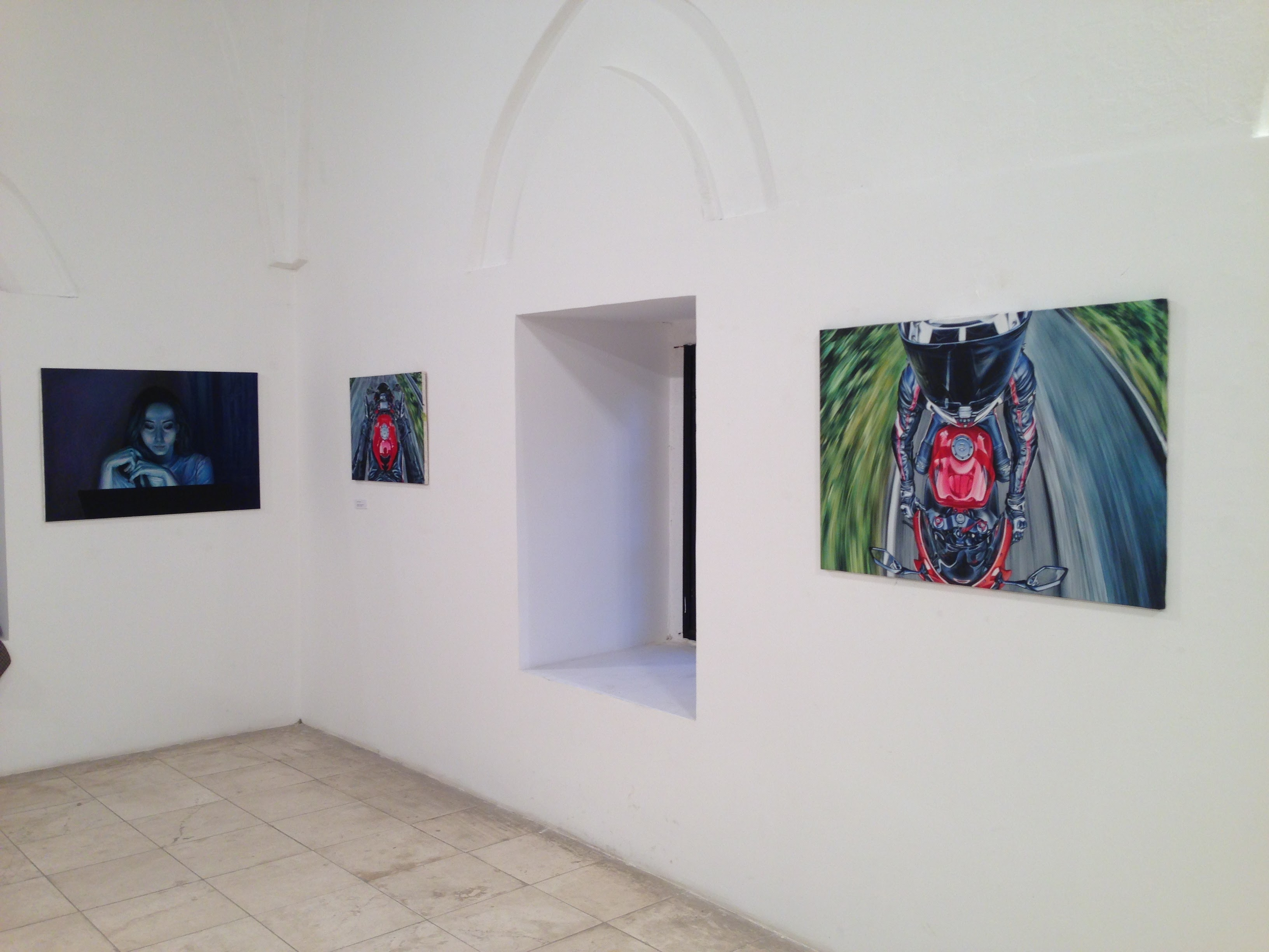 Art Exhibition group ST.ART, Salon 77 in Nis